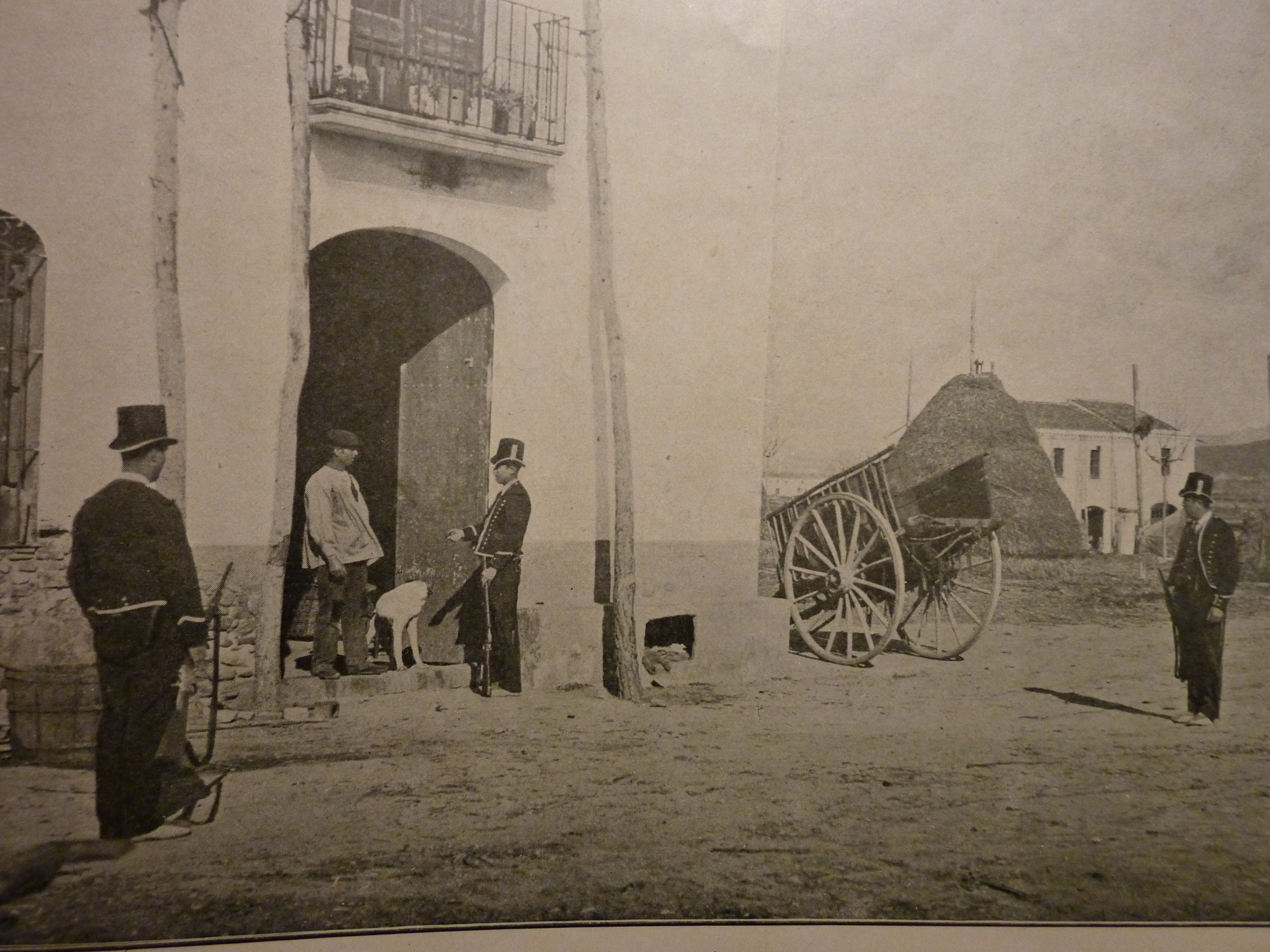 Mossos d'Esquadra patroling somewhere in Catalonia in the late 19th century. See: File:Control de Mossos el s. XIX.JPG